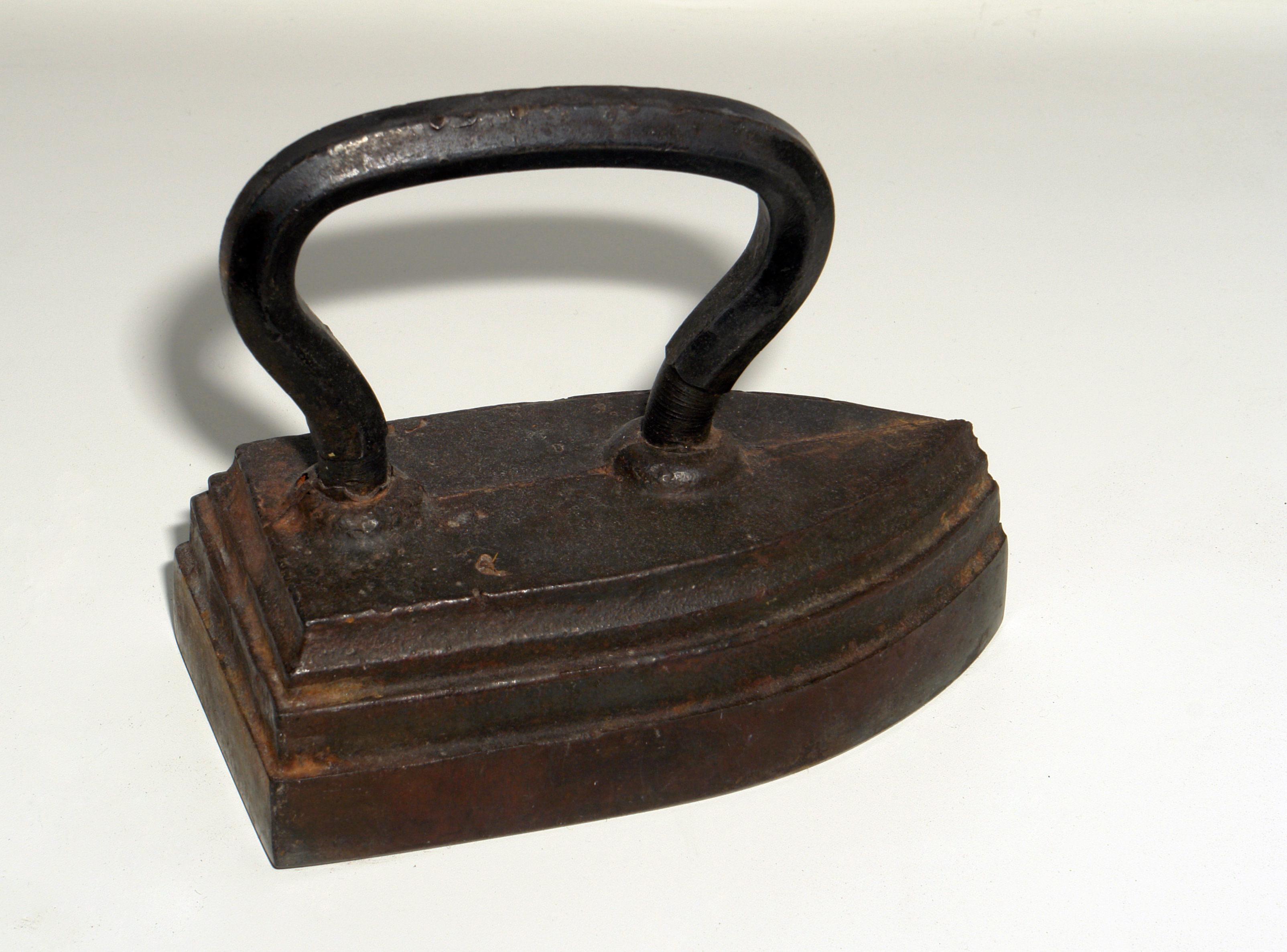 Old iron heater